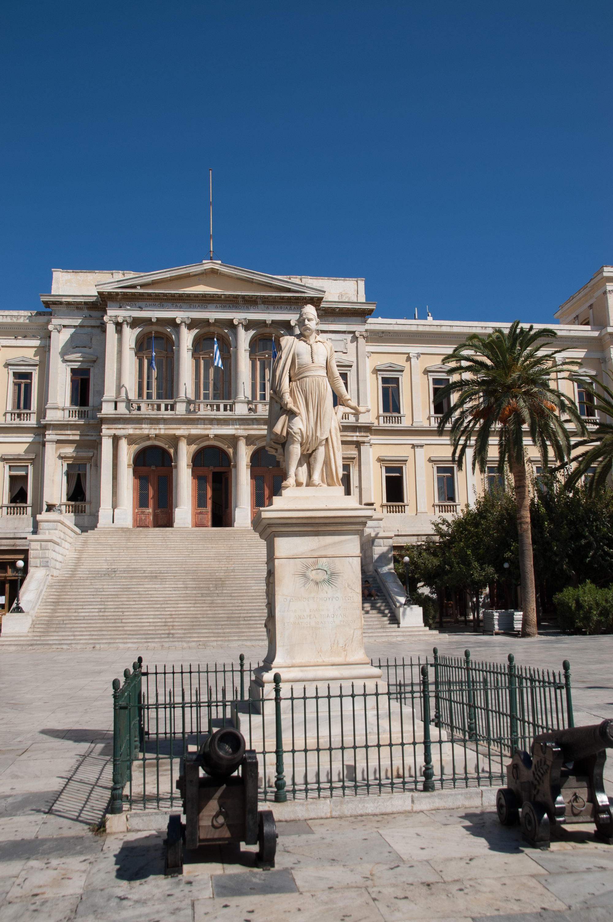 Statue of Andreas Miaoulis